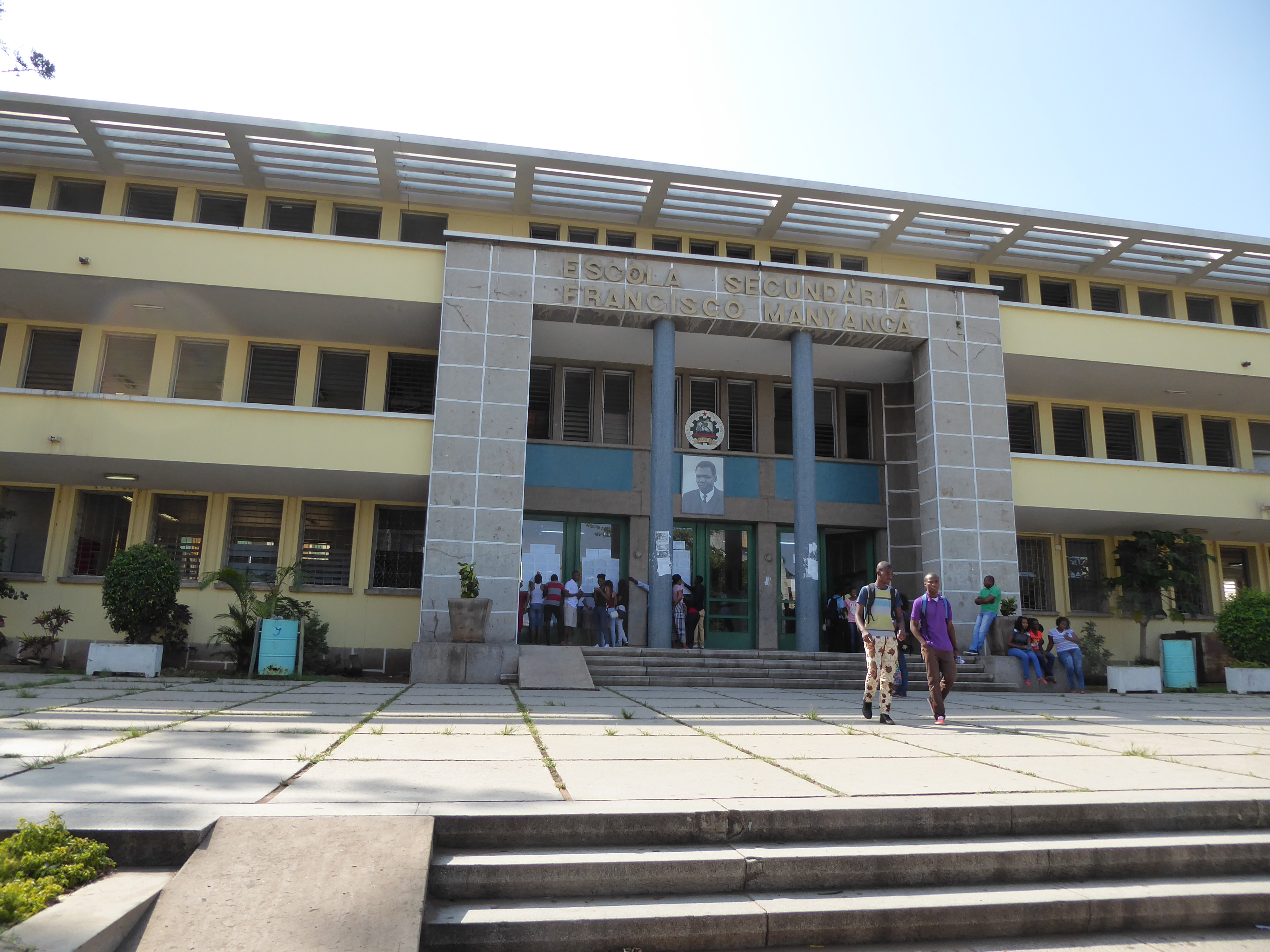 Francisco Manyanga Secondary School, Maputo, Mozambique